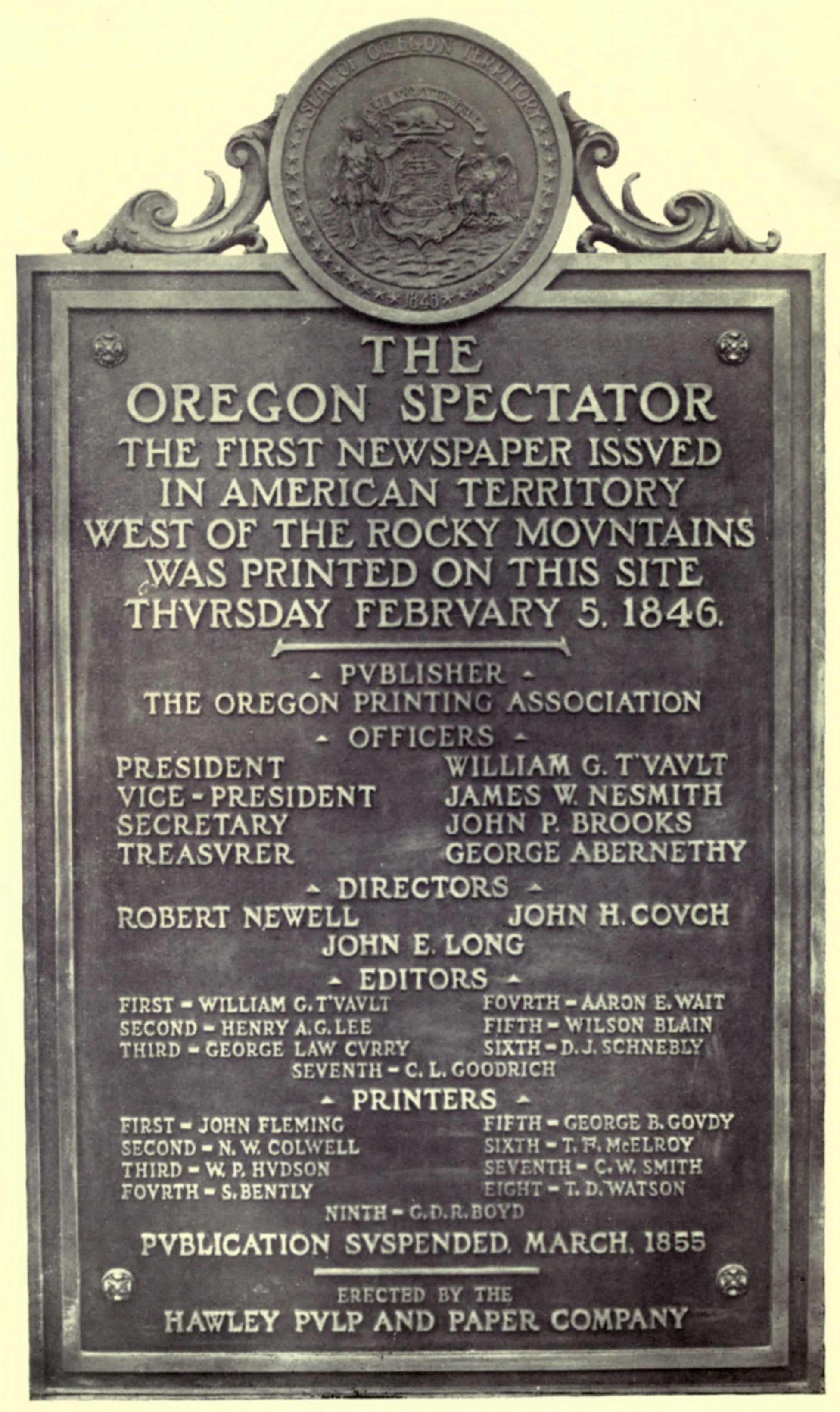 A tablet displayed in Oregon City, United States, commemorating the Oregon Spectator, the first newspaper in the American West.